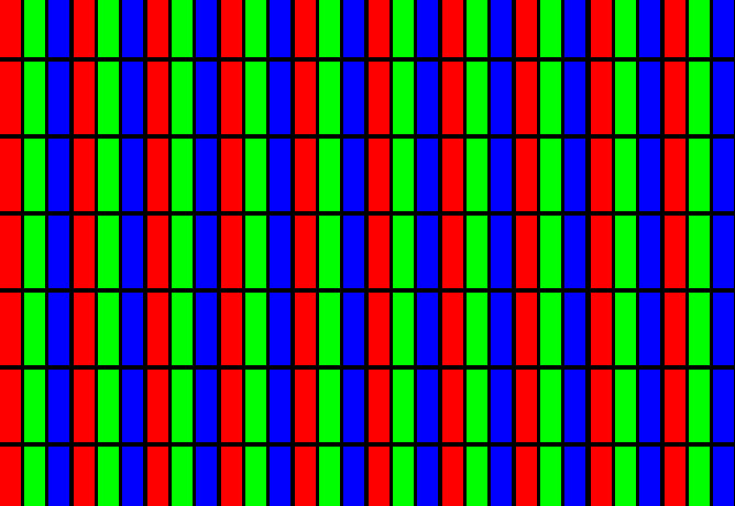 Red, Green, and Blue color subpixels of a backighted LCD color display. Simulated with Photoshop.